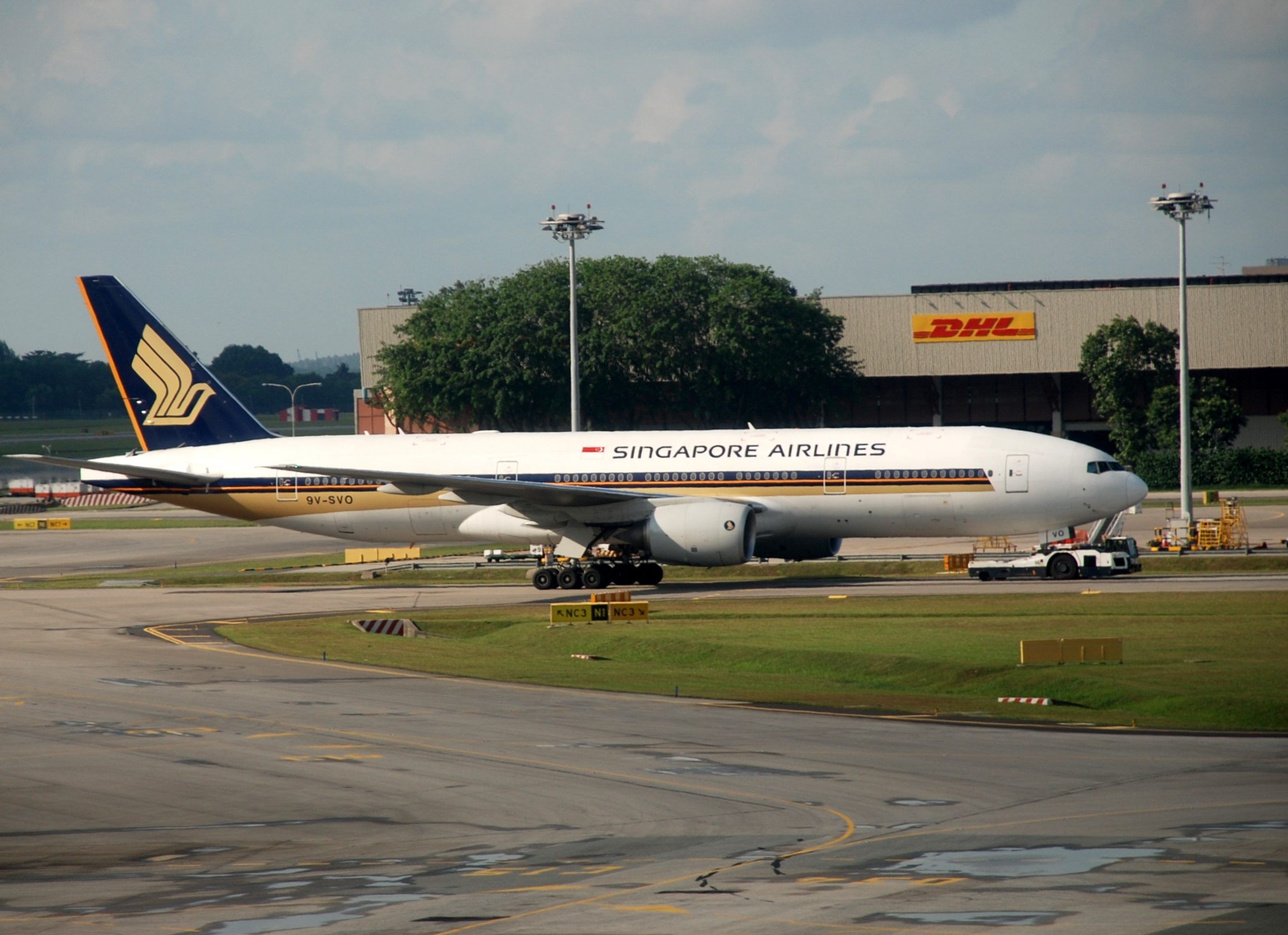 Singapore Airlines Boeing 777-200ER (9V-SVO) at Singapore Changi Airport.